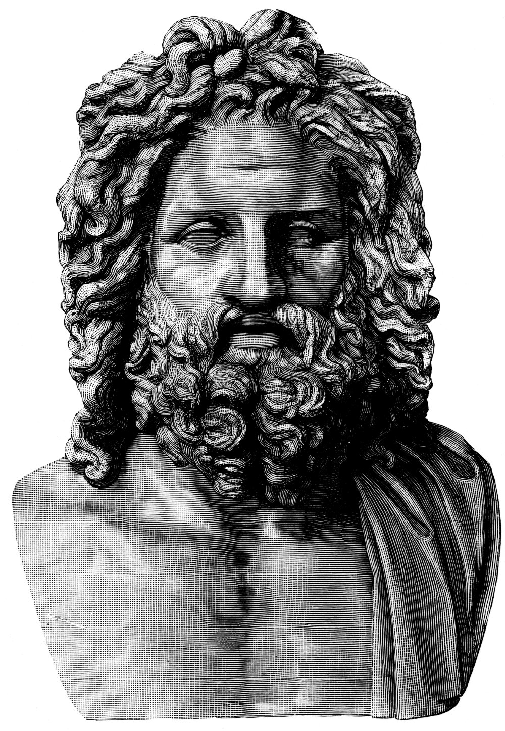 Illustration of the Otricoli head of Zeus.